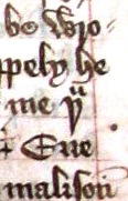 From ca. 1415 manuscript. Shows thorn, superscript u: abbreviation of "thou".